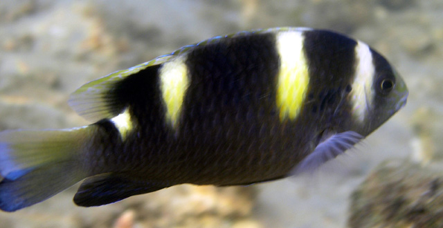 Banded damsel (Dischistodus fascinatus) Dischistodus fasciatus, Pulau Tioman, West Malaysia